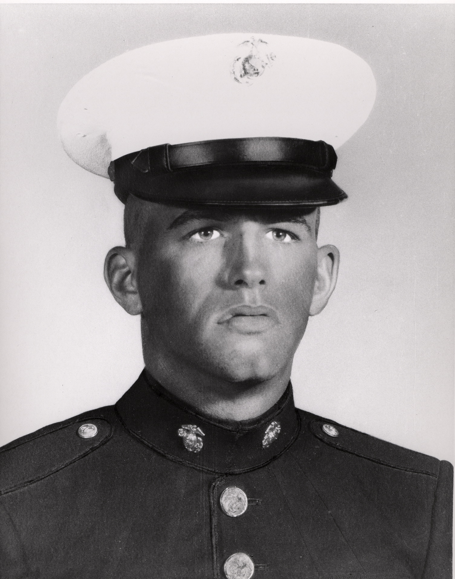 Richard Allen Anderson, USMC; Medal of Honor recipient, Vietnam War